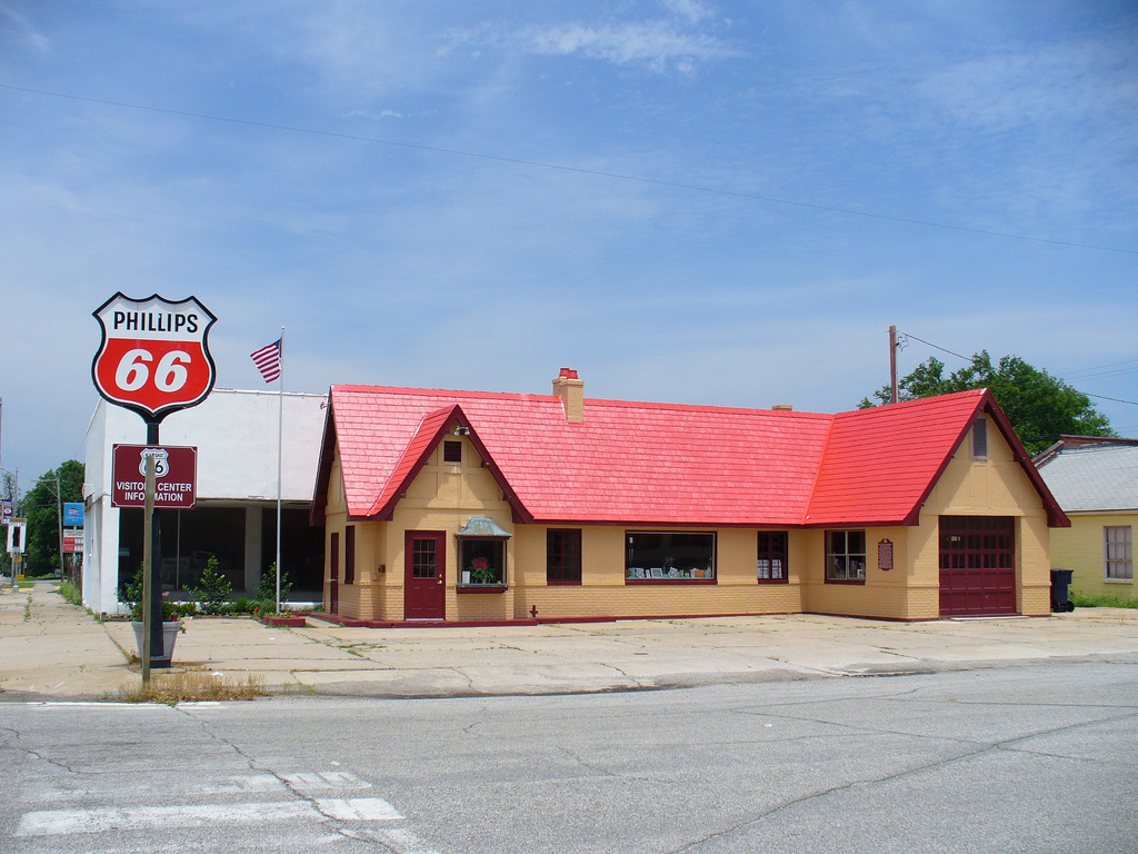 A 1930 Phillips 66 Gas Station in Baxter Springs, Kansas. It is now a tourist information center.